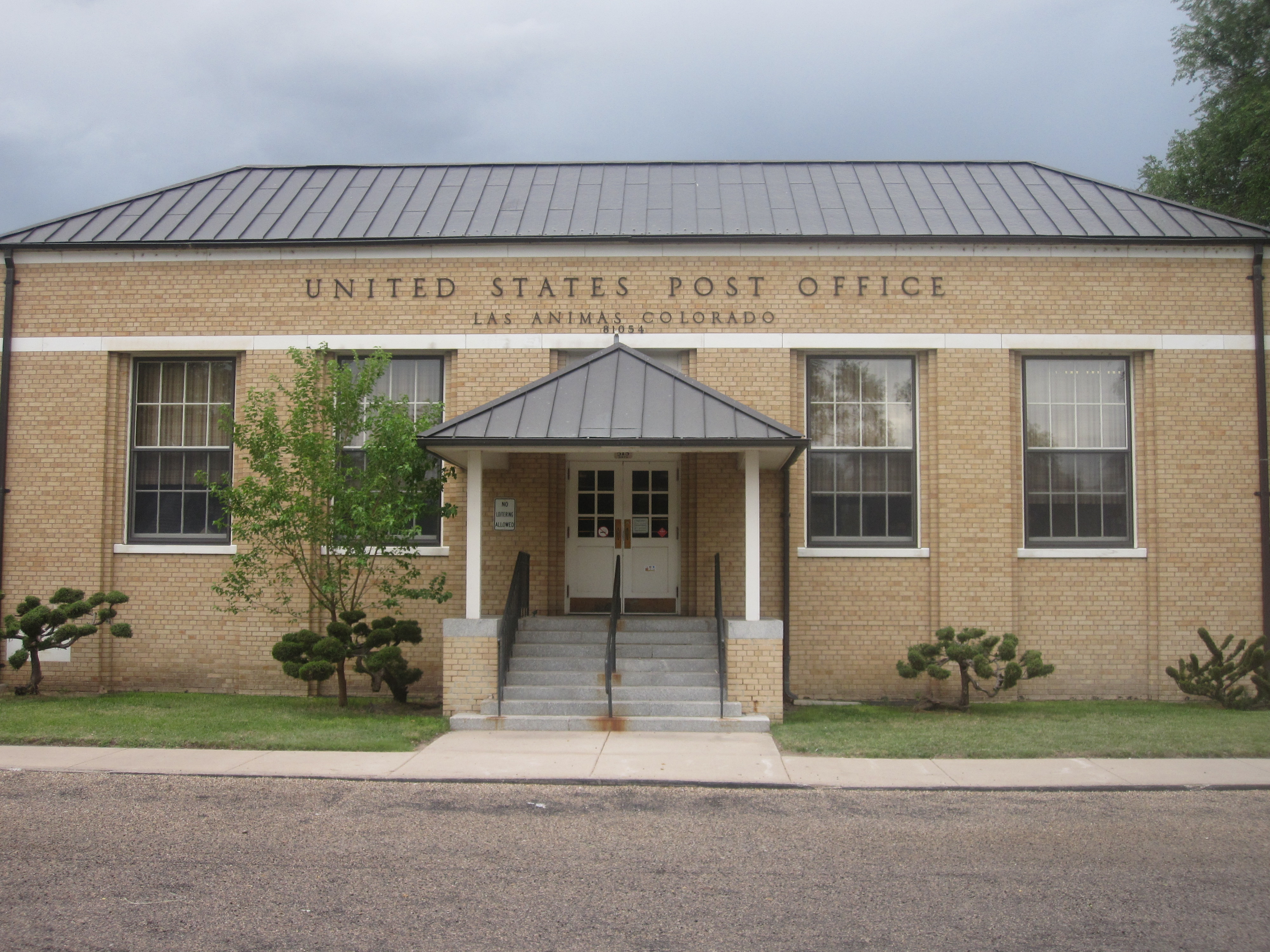 I took photo with Canon cameral in Las Animas, CO.